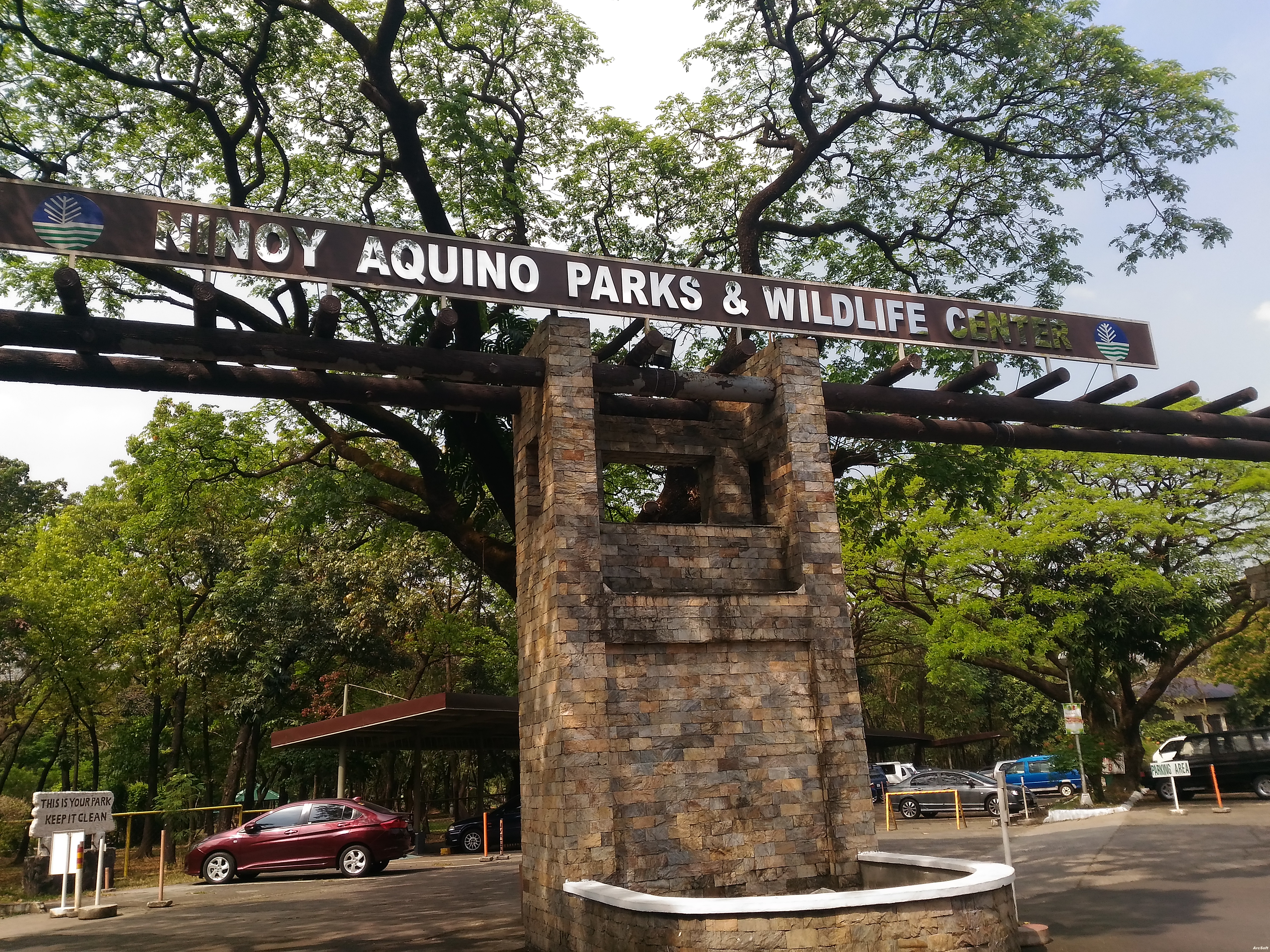 The entrance of Ninoy Aquino Parks and Wildlife. The Entrance Plaza combined with trees gives a dramatic background of how wildlife preservation can blend with the city.